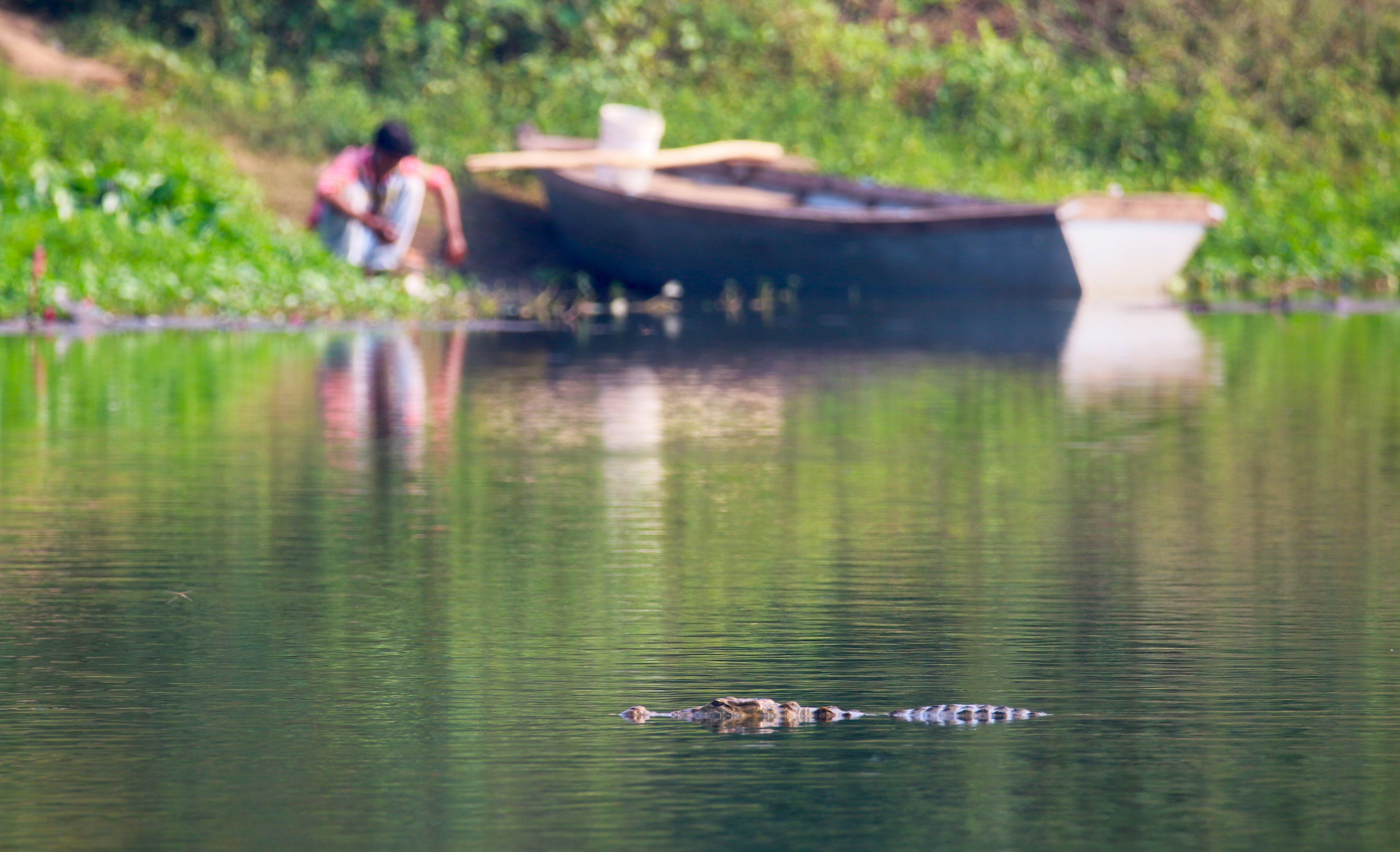 A boy was catching fish while a marsh crocodile was swimming near him, Village Maltaj, Gujarat State, India. Marsh Crocodile or Indian Mugger is one of the ferocious species of the Crocodile family with a number of records for attacking humans.